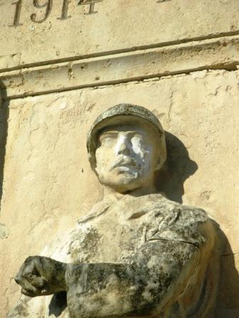 Detail from the monument aux morts at Longpre-les-Corps-Saints. The work of the sculptor Auguste Carvin